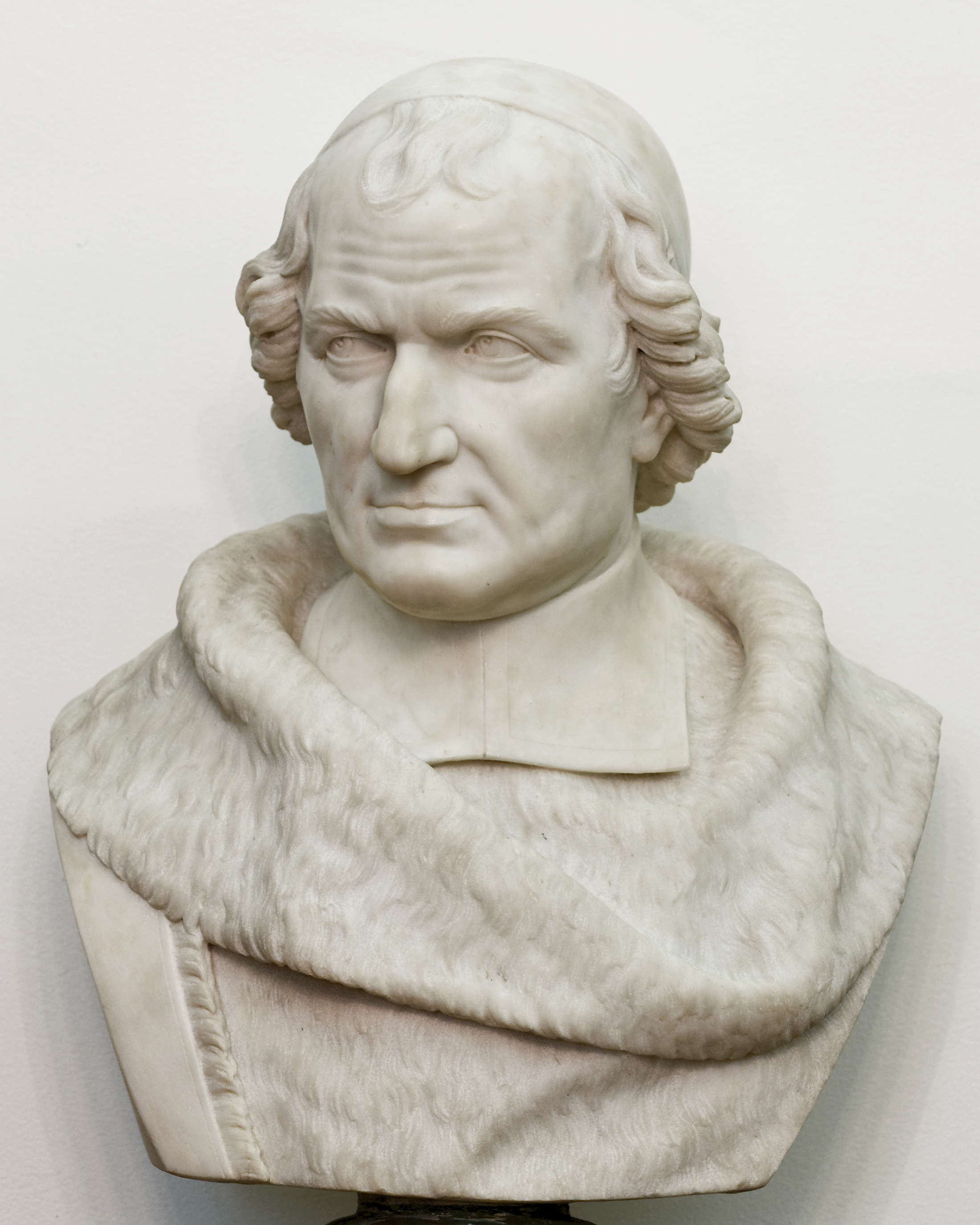 Bust of French theologian Antoine Arnauld (1612–1694).